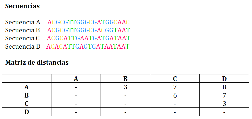 Matriz de distancias a partir de un alineamiento múltiple.